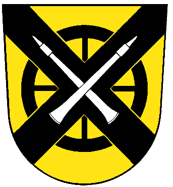 Coat of arms of Quierschied, Part of Quierschied